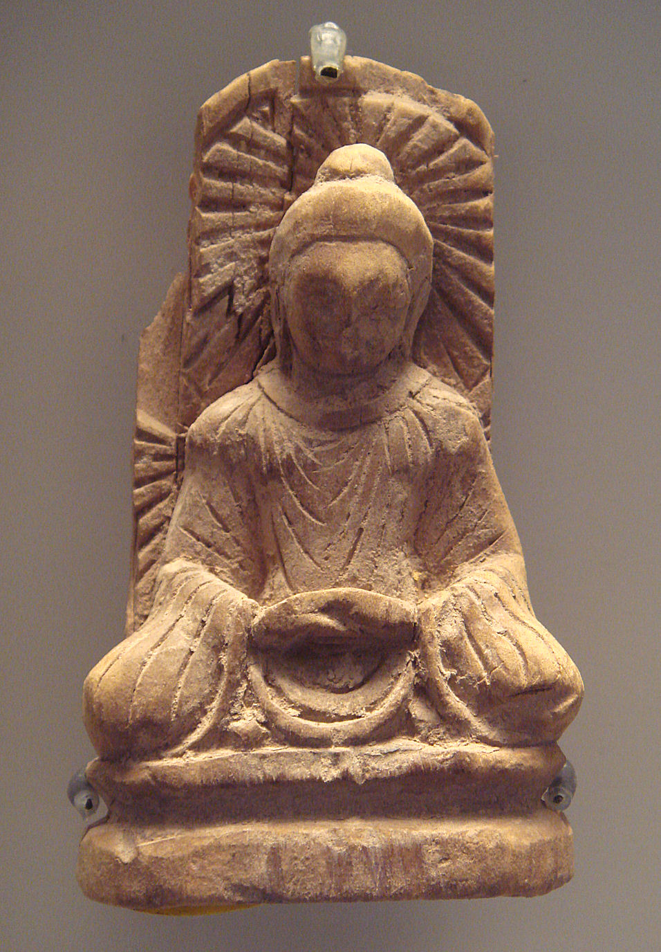 Buddha from Tumshuq. Toqquz Saraï, central stupa. 5th century. Xinjiang. Pelliot expedition 1906-1909. MG 21288.